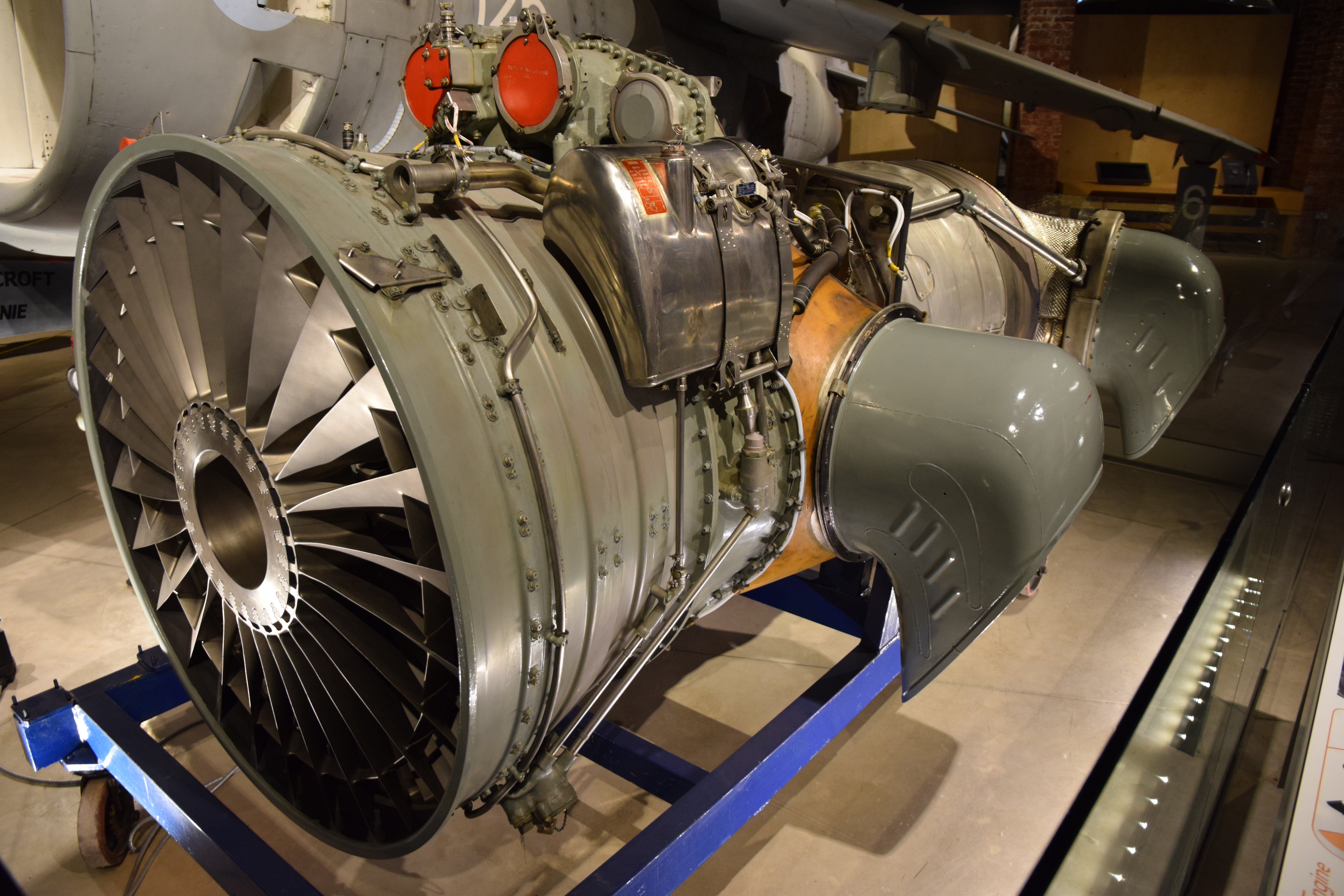 Bristol Siddeley Pegasus turbofan at Aerospace Bristol, Filton, 20 June 2018.